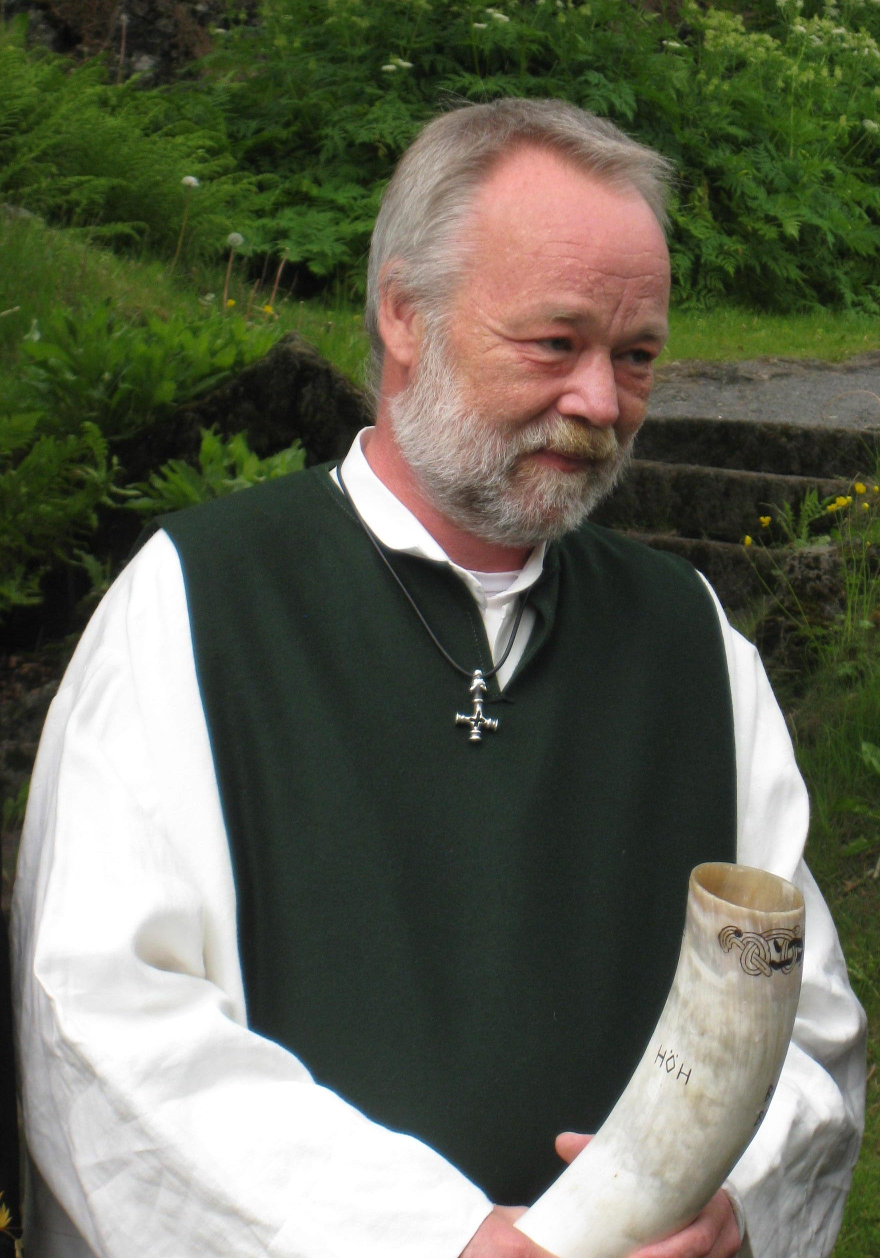 A photograph showing Hilmar Örn Hilmarsson, a 51 year old Icelandic man with short grey receding hair and a full grey beard (with some red in the moustache). He is smiling. He is wearing green and white ceremonial garbs. Around his neck is an Icelandic style Thor's hammer. He is holding a drinking horn with his initials, HÖH, on it. In the background there is vegetation. The photograph was taken at a wedding where Hilmar officiated in his capacity as high priest of Ásatrúarfélagið.